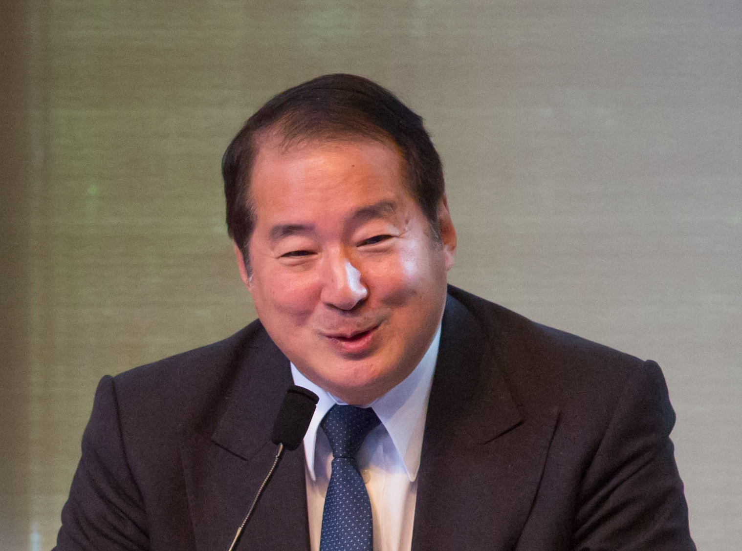 Photograph of Peter Young, recipient of the Richard J. Bolte Sr. Award for Supporting Industries, awarded 10 May 2017, at the Chemical Heritage Foundation.